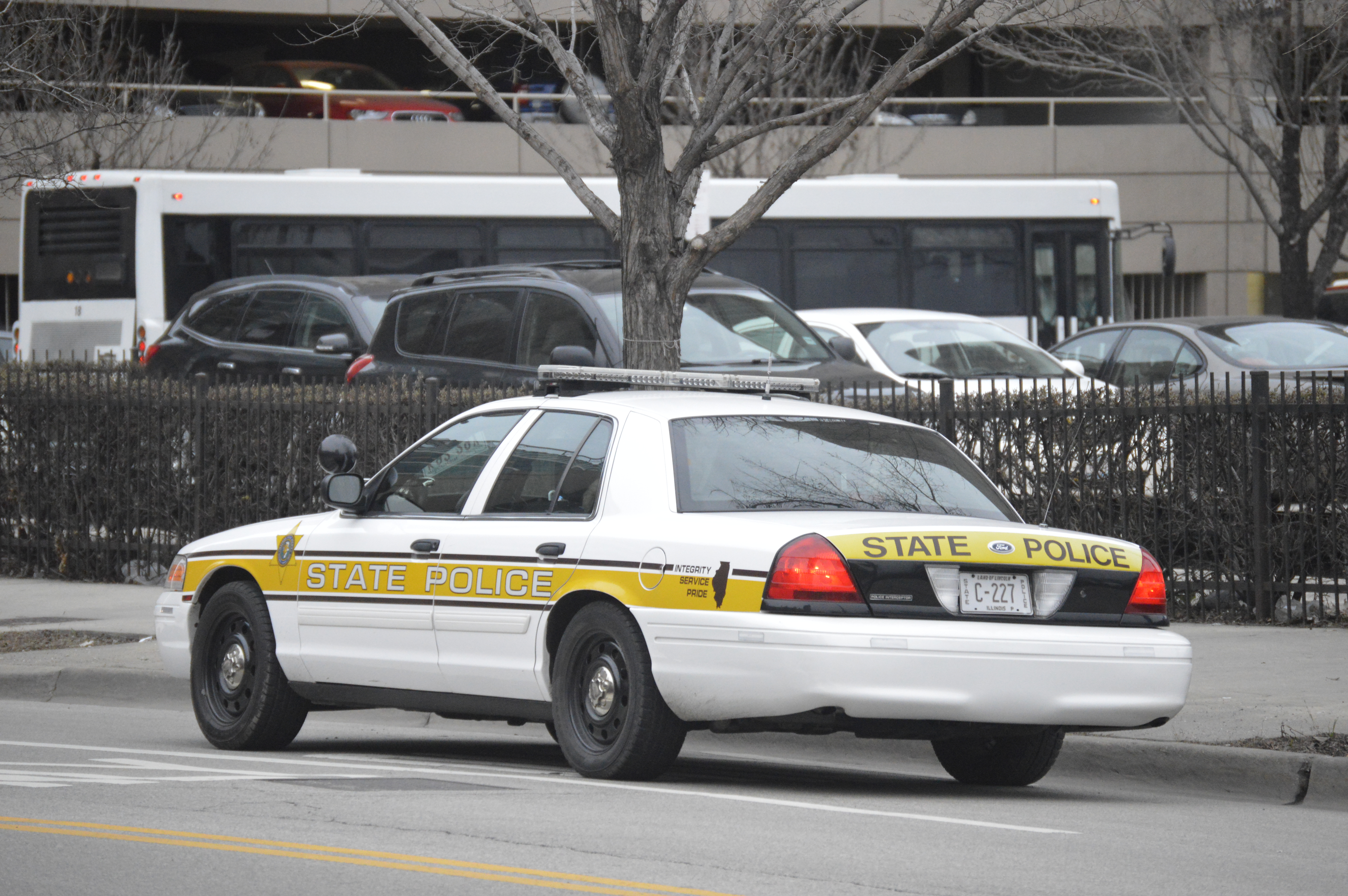 Illinois State Police Crown Victoria